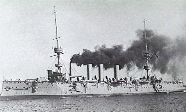 PORT MELBOURNE, VIC. 1908. PORT VIEW OF THE FIRST CLASS PROTECTED CRUISER HMS POWERFUL, FLAGSHIP OF THE IMPERIAL SQUADRON ON THE AUSTRALIA STATION. NOTE THE 9.2 INCH GUNS MOUNTED FORE AND AFT. HER 6 INCH GUNS ARE MOUNTED IN TWO STOREYED CASEMATES. THE LOWER GUNS WERE UNUSABLE IN A SEAWAY. THE TWO EMBRASURES IN THE BOW ARE FOR THE 12 POUNDER GUNS, THE LOWER OF WHICH WERE ALSO UNUSABLE IN A SEAWAY. 3 POUNDER ANTI TORPEDO BOAT GUNS ARE FITTED IN HER PROMINENT FIGHTING TOPS.